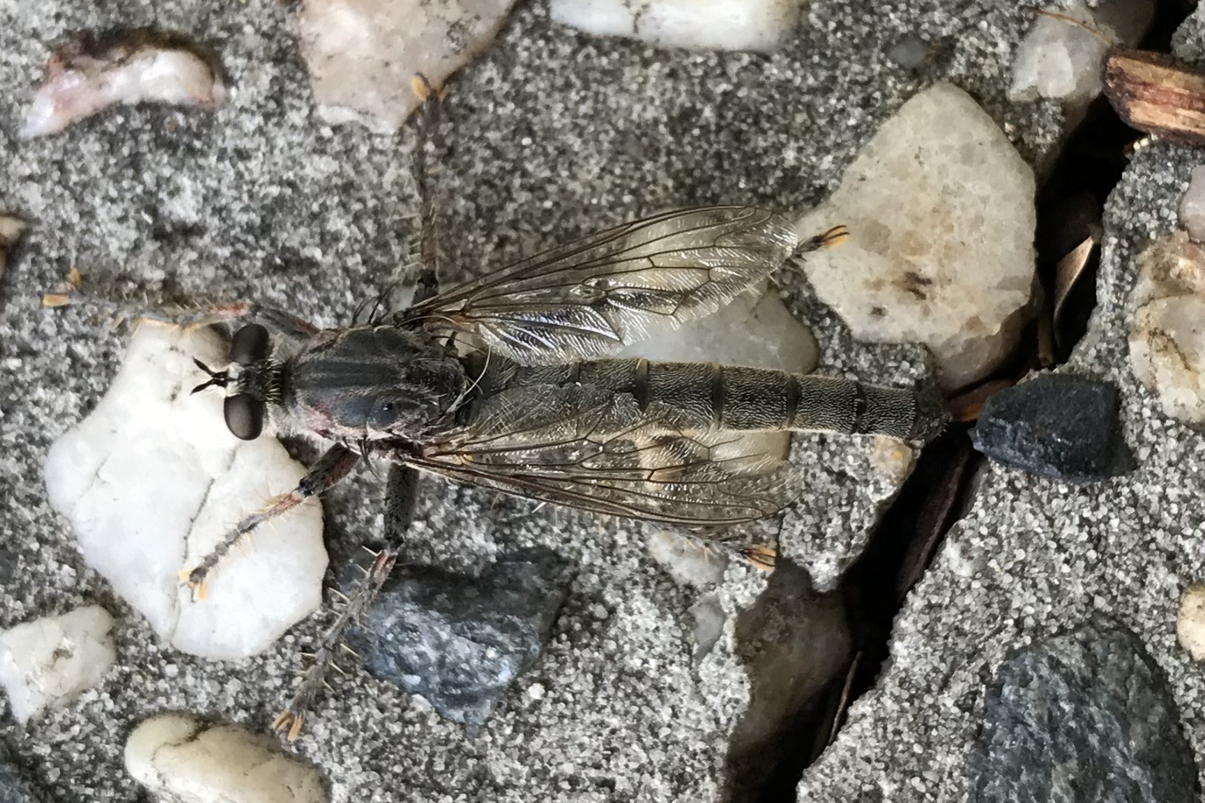 Bathypogon spp. Species of insect.